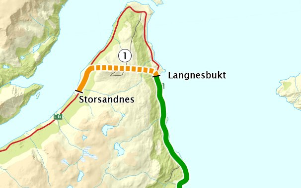 Ailegastunnelen E6 Alta